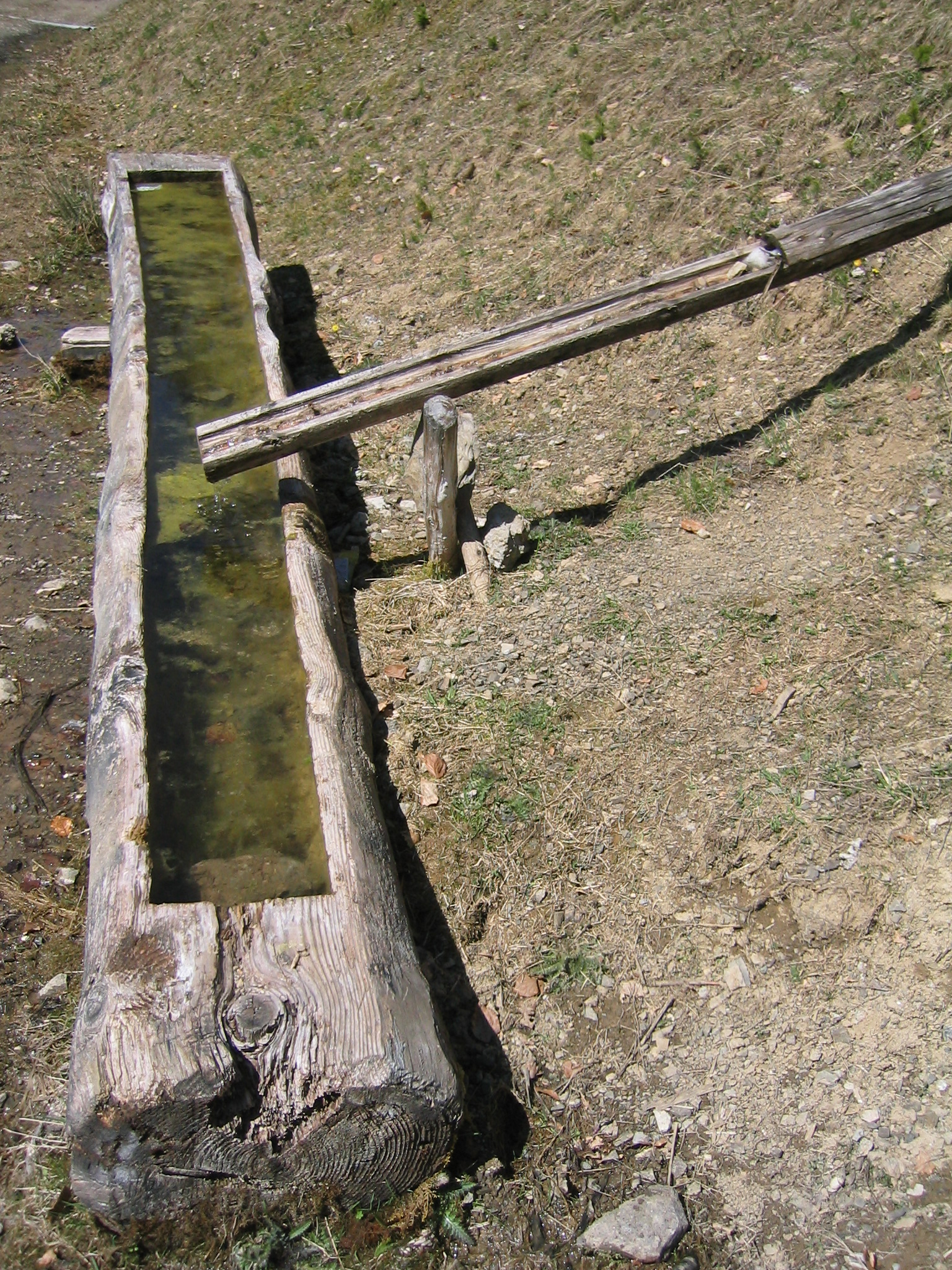 An Abreuvoir, watering trough, in Haute-Savoie, France.